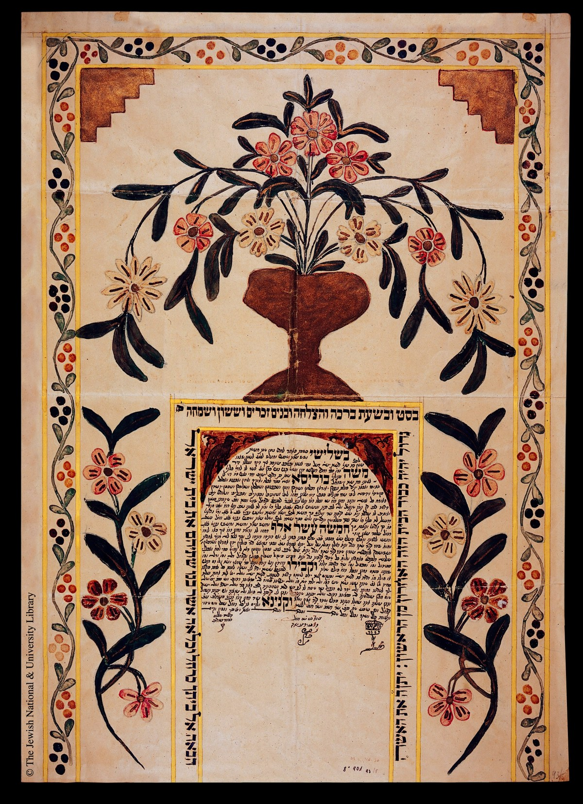 Ketubah from The Ketubbot Collection of the National Library of Israel